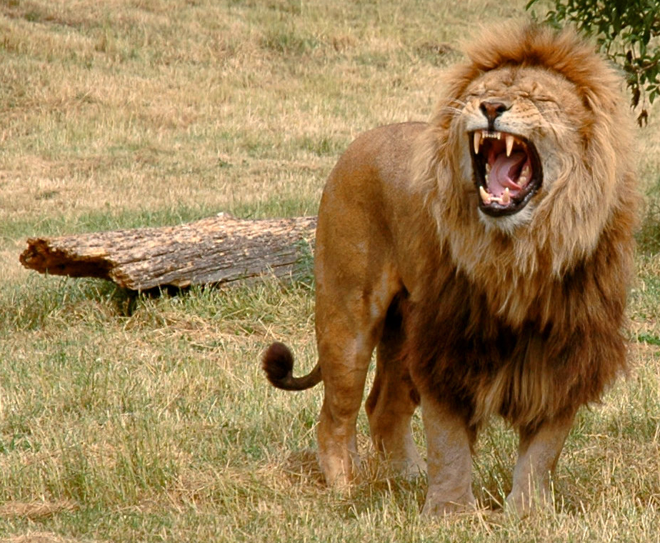 A lion in West Midlands Safari Park